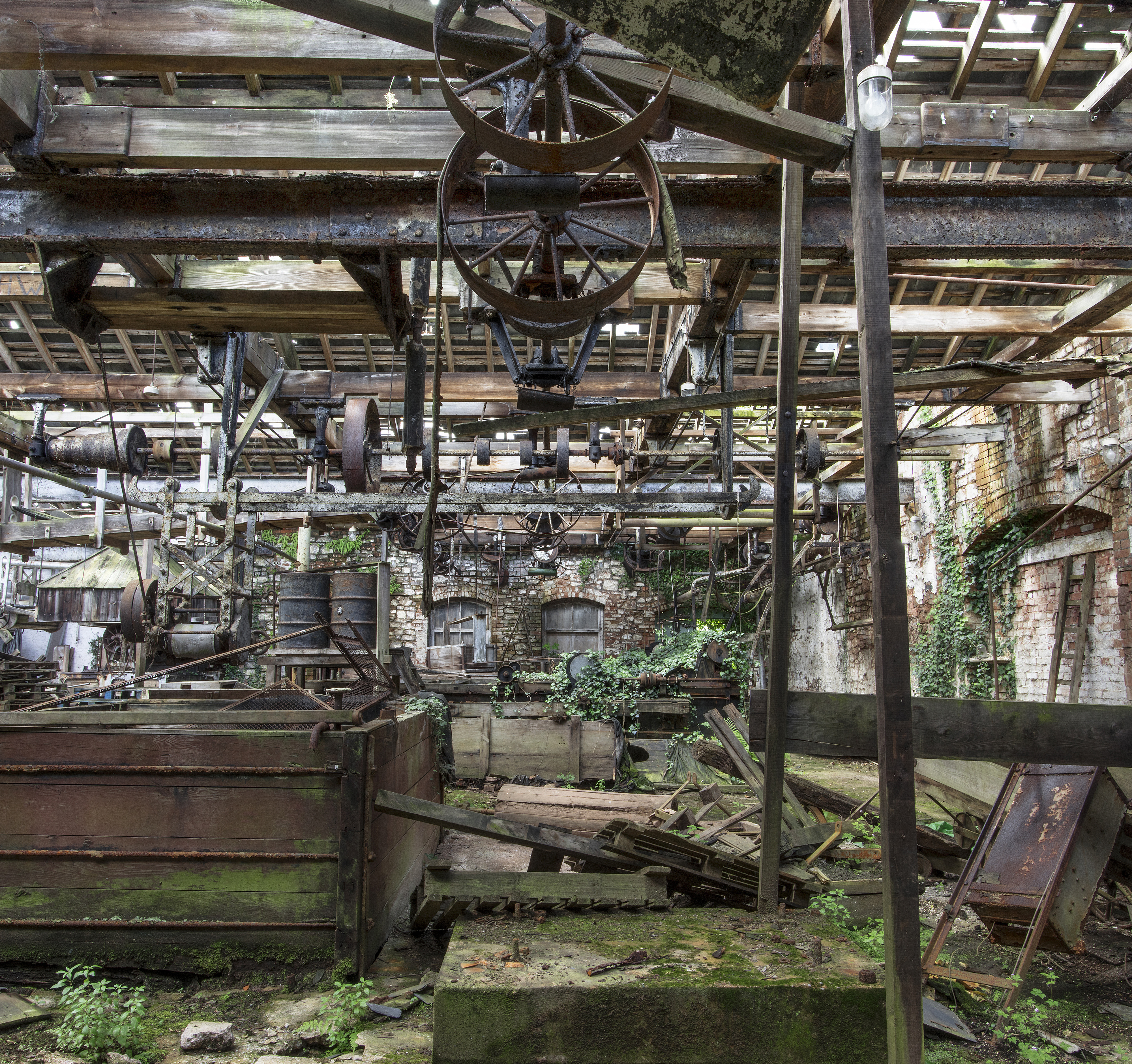 Some of the remaining textile machinery in the cloth finishing works at Tone Mills.